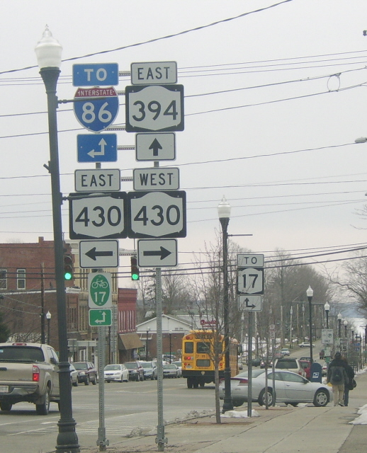 Intersection of New York State Routes 394 and 430 in Mayville. Chautauqua Lake is visible (sort of) in the bottom right corner.